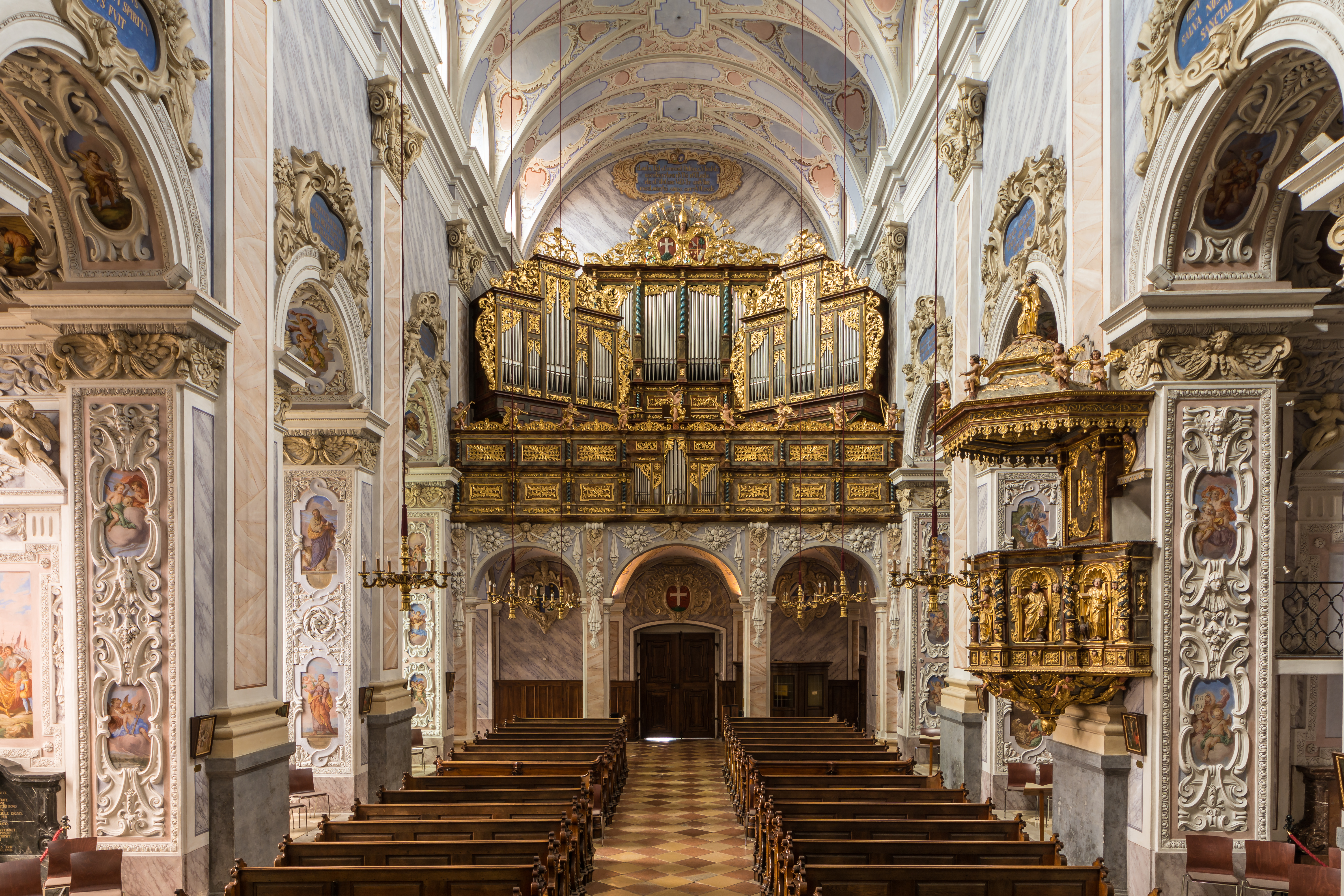 Nave and organ of Göttweig Abbey Church, Lower Austria. Baroque case of the organ by Ignaz Gatto the Elder 1761.